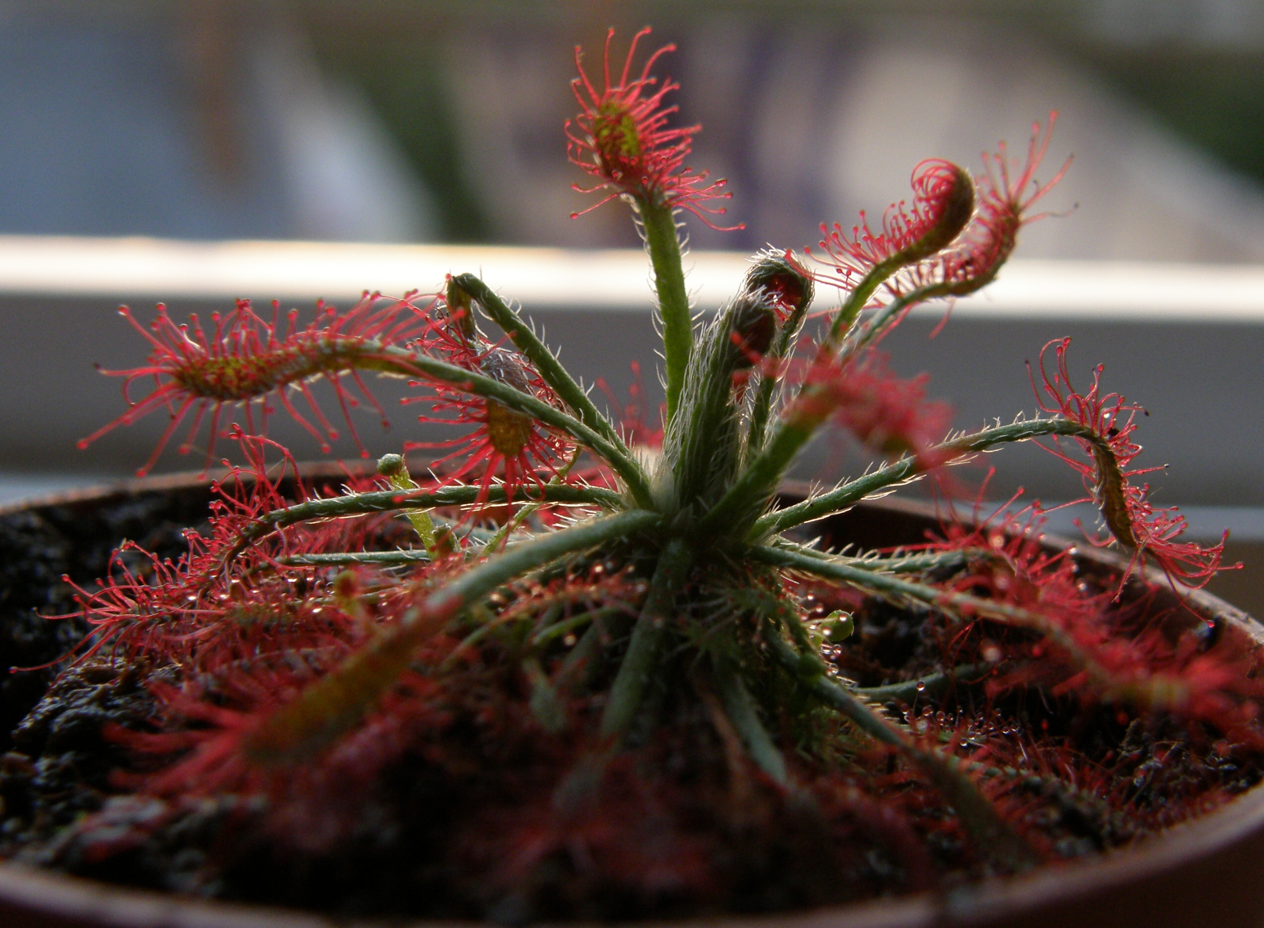 Drosera neocaledonica